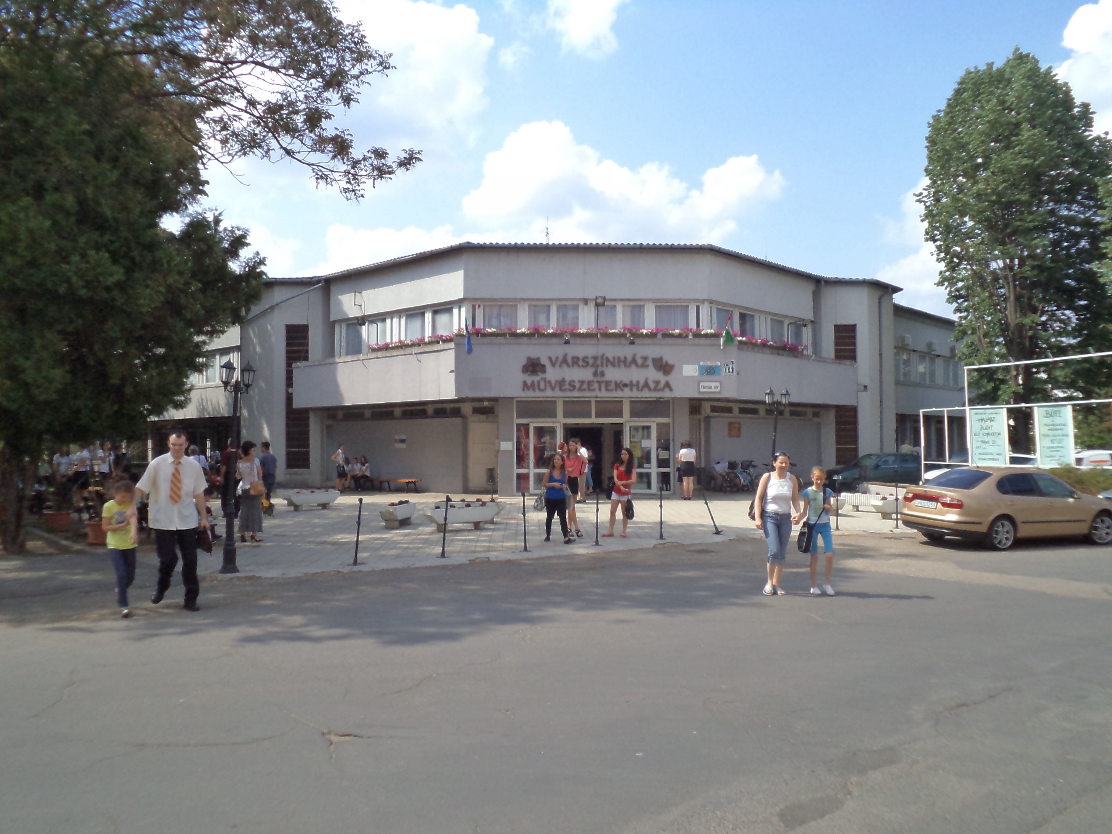 Kisvárda, Culture Center